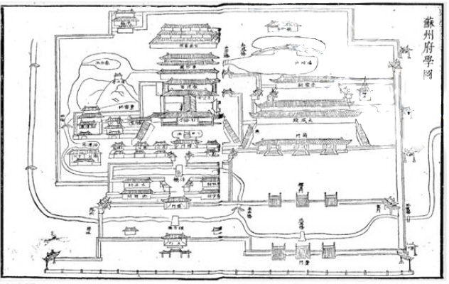 The map of Suzhou Fuxue